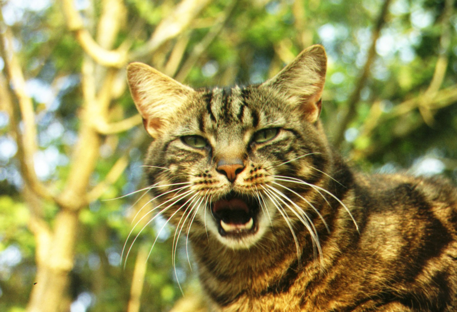 Cat, with its mouth open